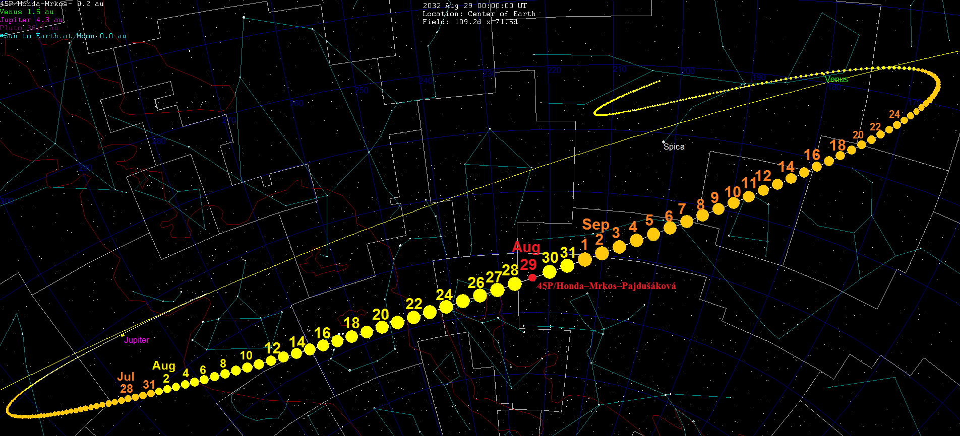 Comet en:45P/Honda–Mrkos–Pajdušáková, daily motion around August 2032. Closest approach to Earth occurs in October.